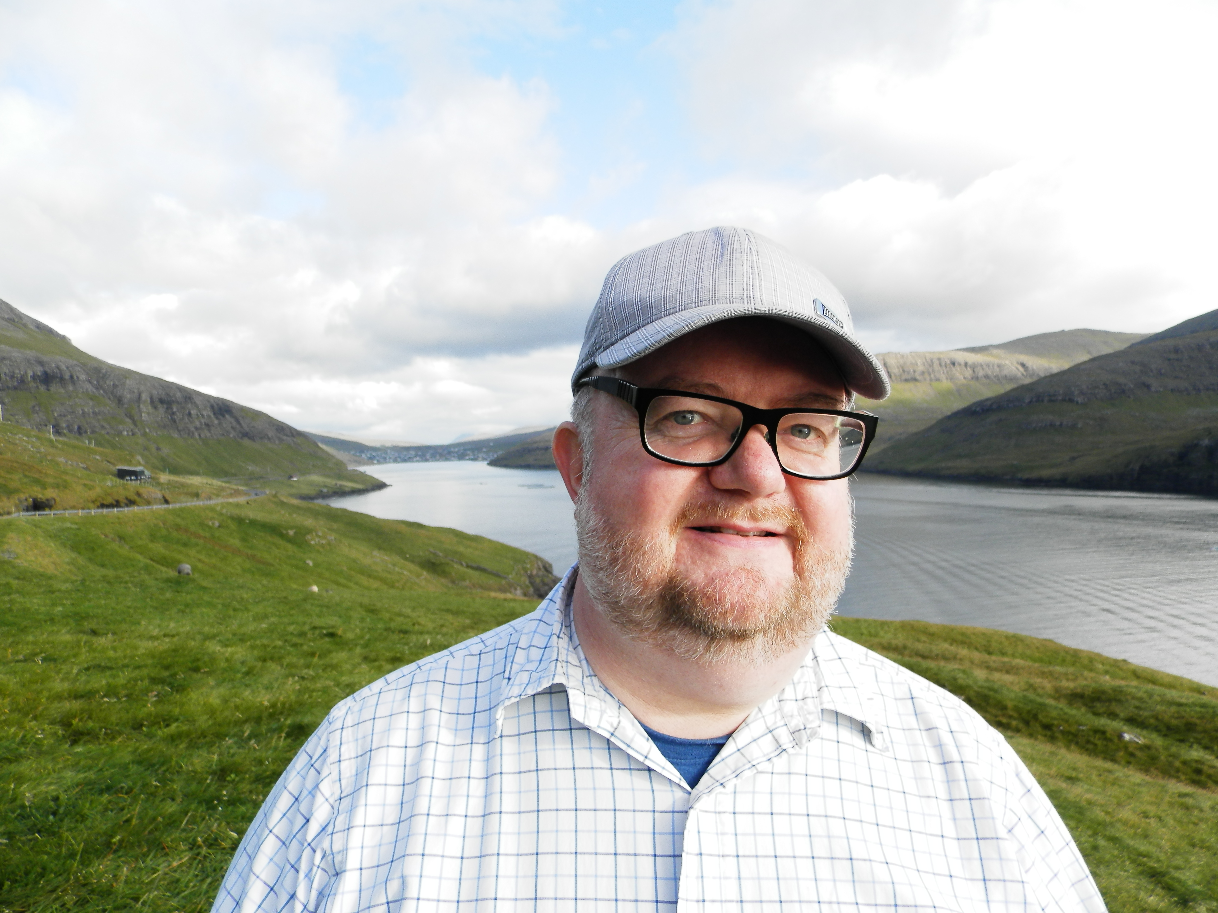 Hans Peter Joensen is a Faroese whistleblower who was a governmental CFO at the Strandfaraskip Landsins (SSL), which runs the public transport of the Faroe Islands, ferries and busses. He worked there from 2007 until 30 September 2014.